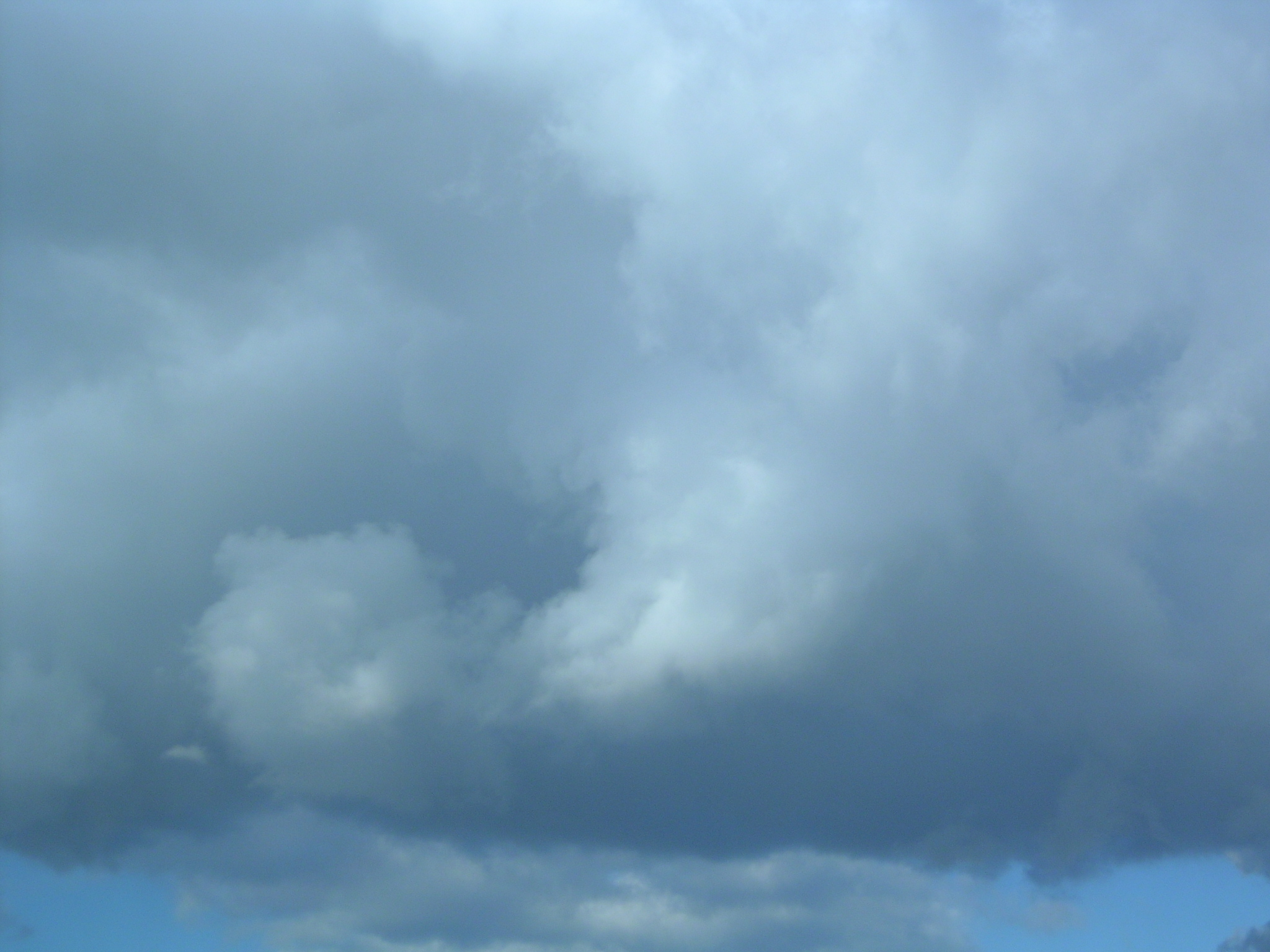 Cumulus congestus cloud with elephantitis :D